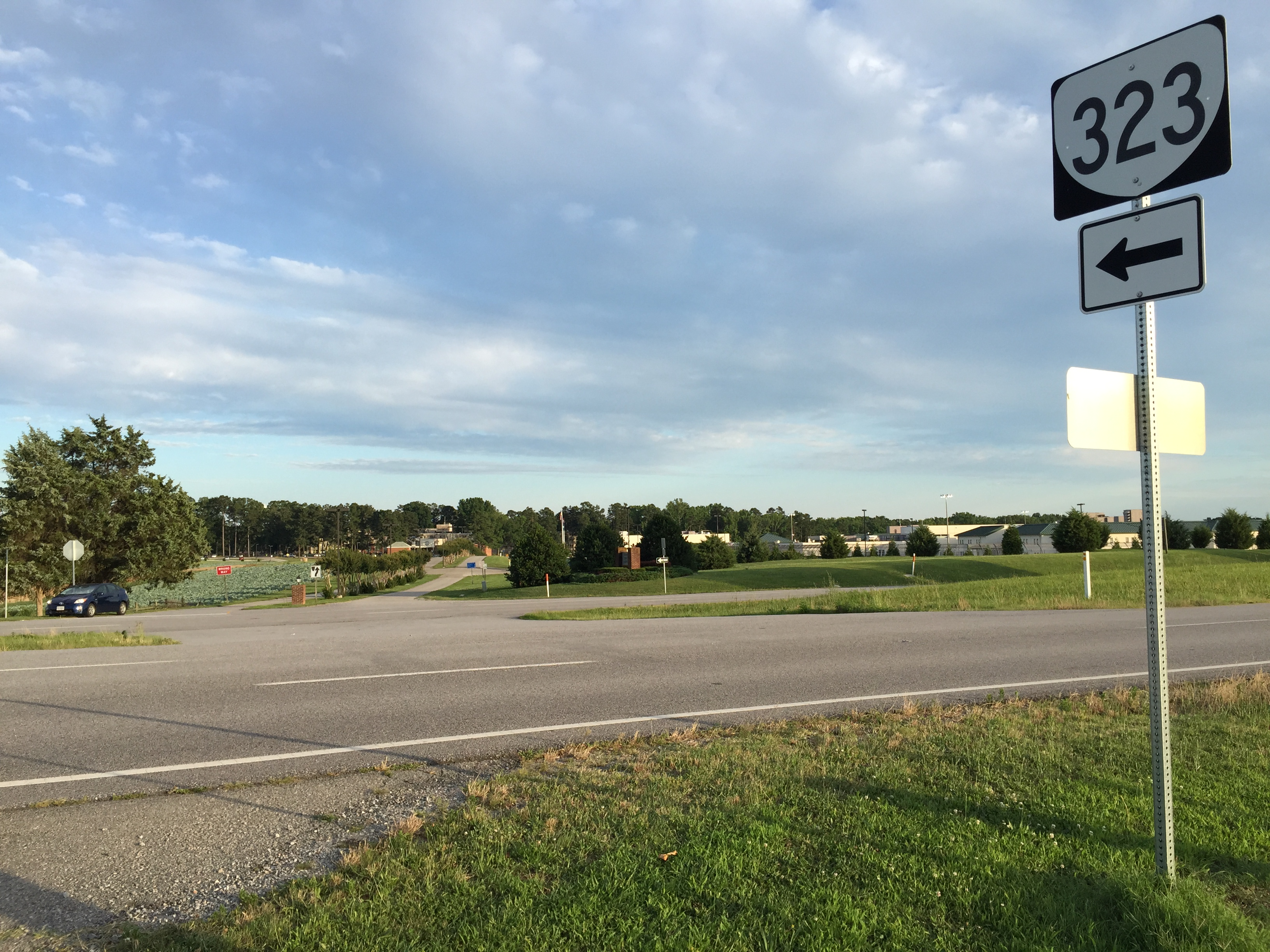 View south along Virginia State Route 323 (Crape Myrtle Road) at U.S. Route 360 (Patrick Henry Highway) just northeast of Burkeville in western Nottoway County, Virginia